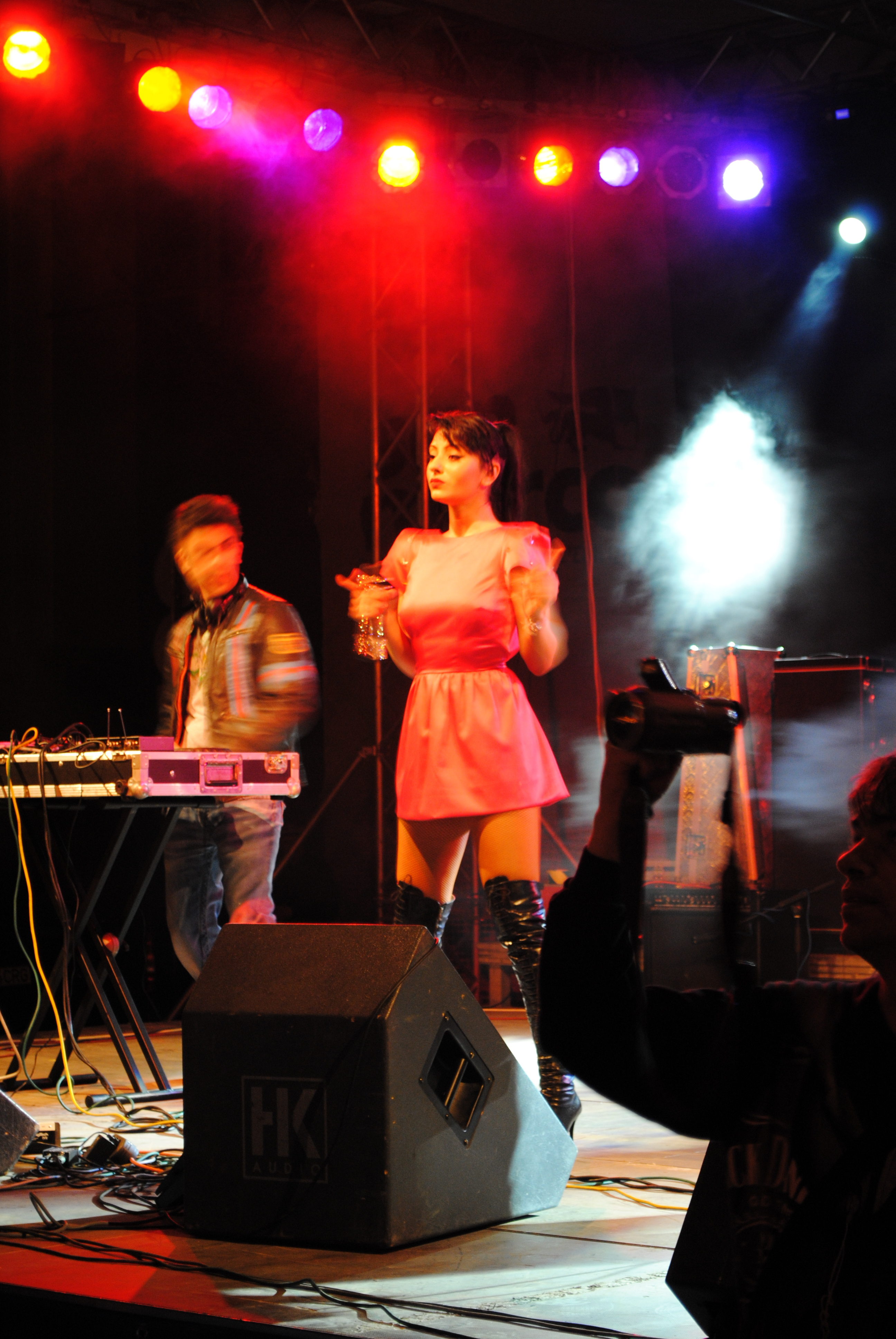 Solista trupei DJ Project, Giulia Anghelescu.